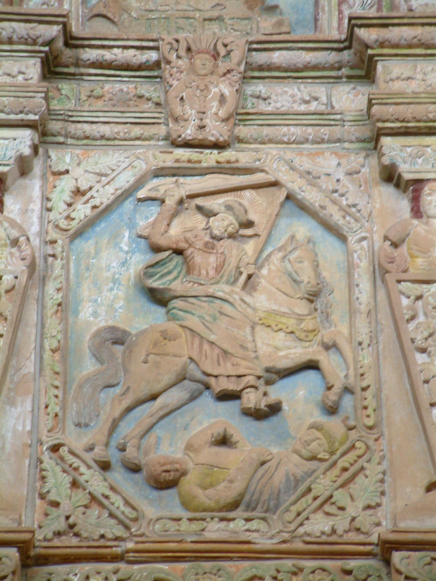 St, James panel, from reredos in Cristo Rey Church, Santa Fe, New Mexico, c. 1760